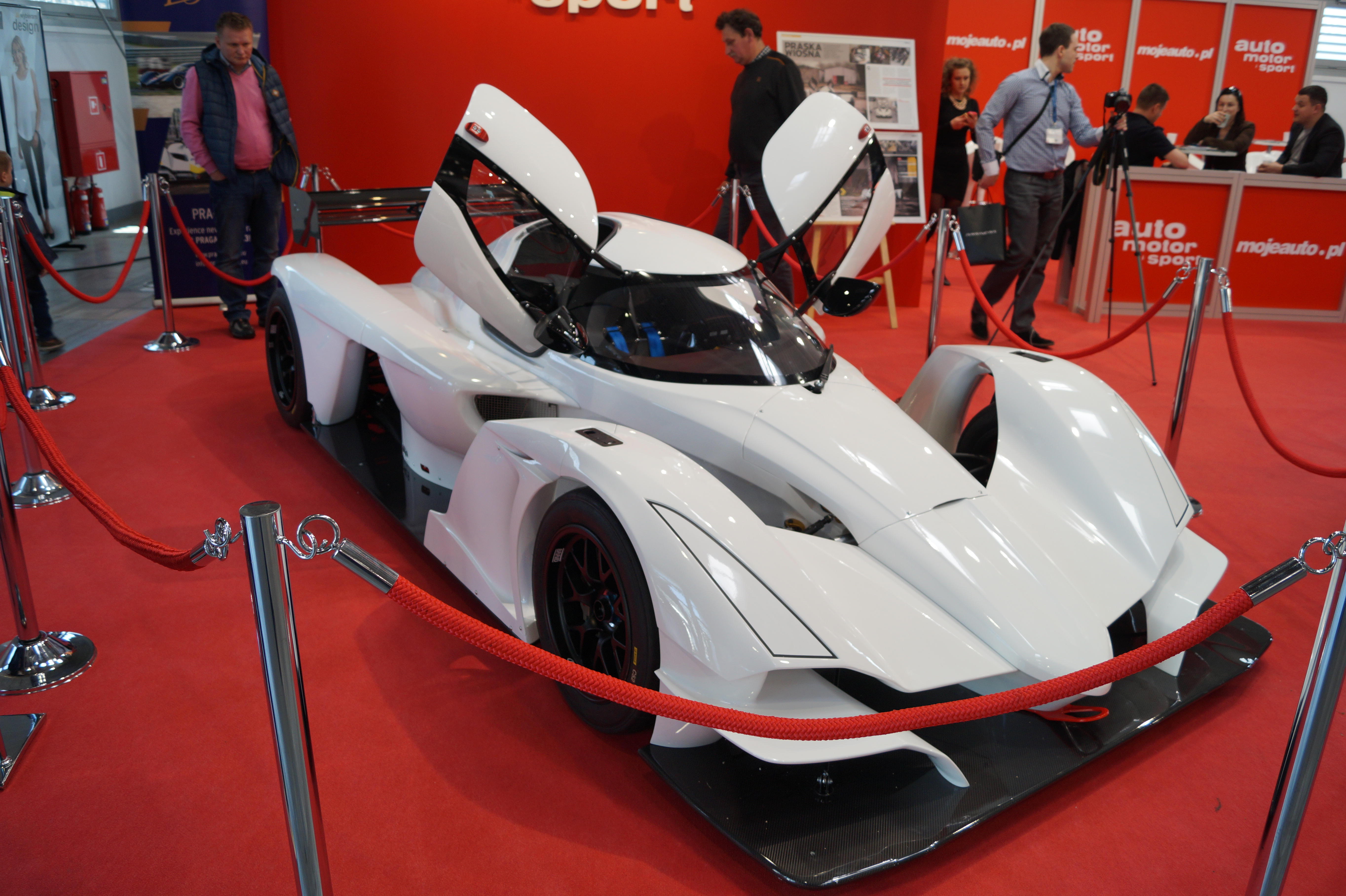 The making of this document was supported by Wikimedia Polska Association, within Wikigrant no. WG 2015-19. Przód Pragi R1 na Motor Show Poznań 2015